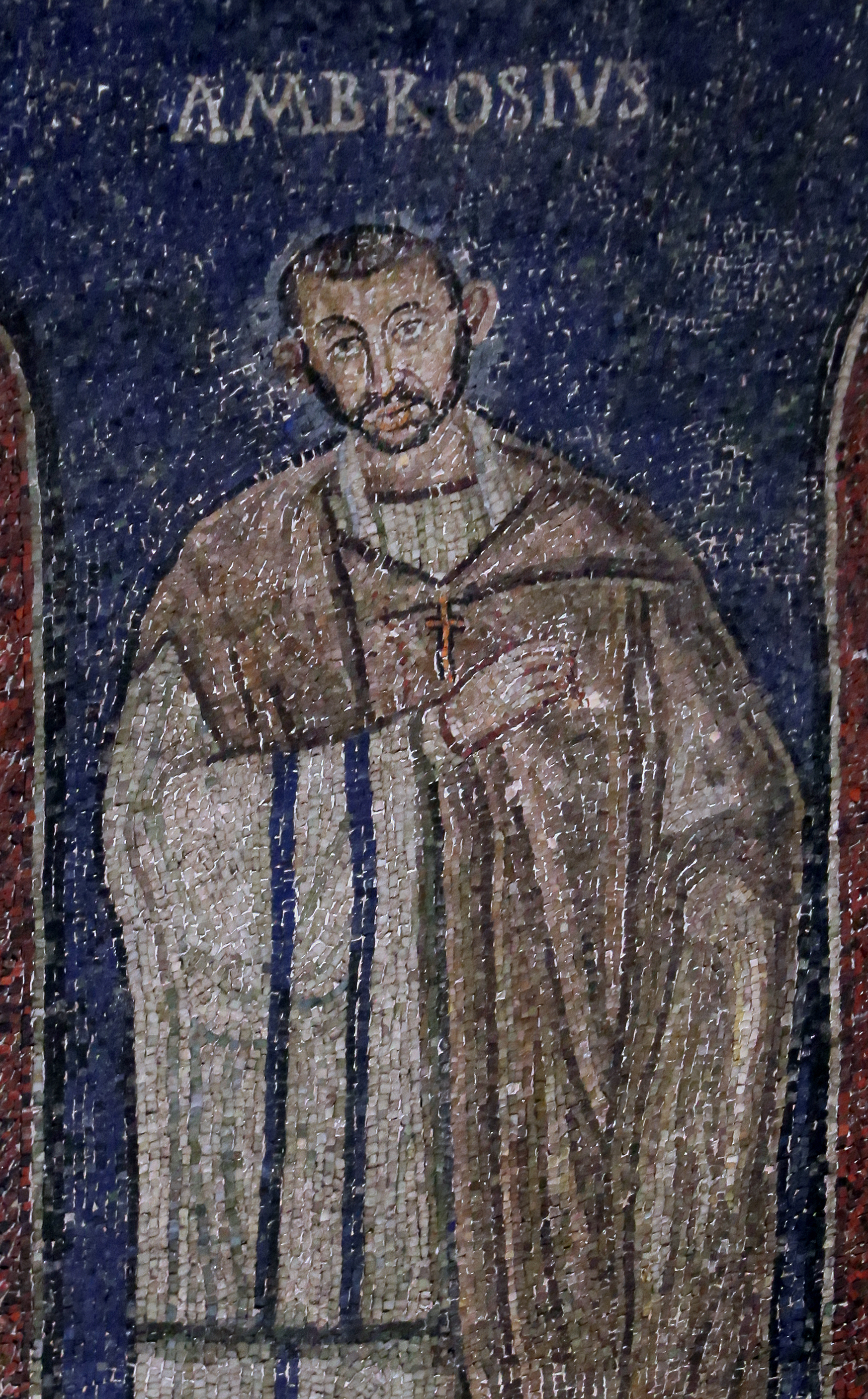 San Vittore in ciel d'oro (Milan)